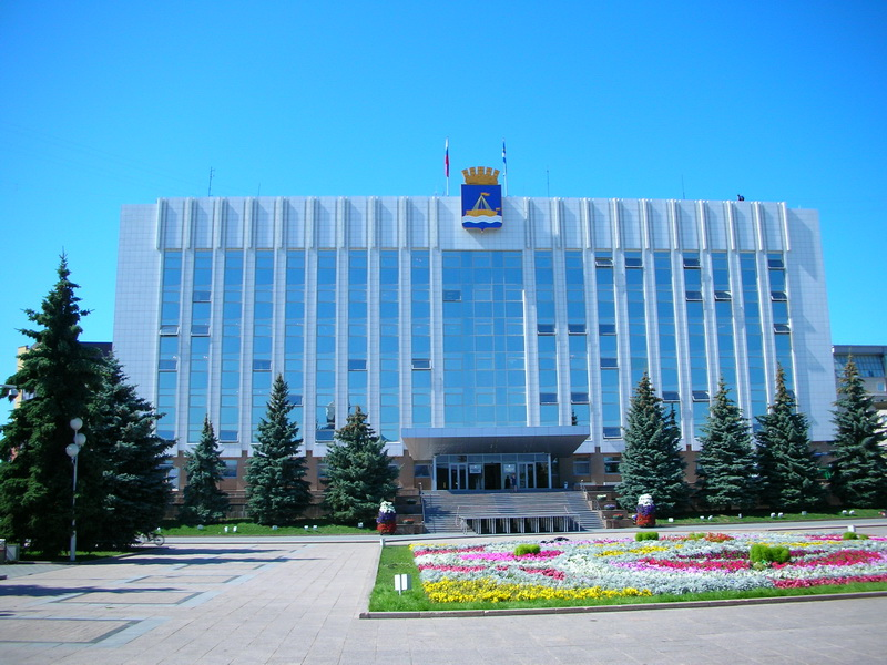 Tyumen Town Hall Building after renovation